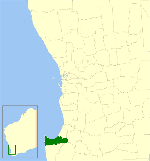 Description=Location of the Local Government Area in Western Australia